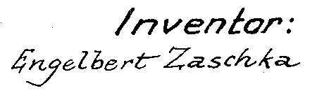 Signature of Engelbert Zaschka